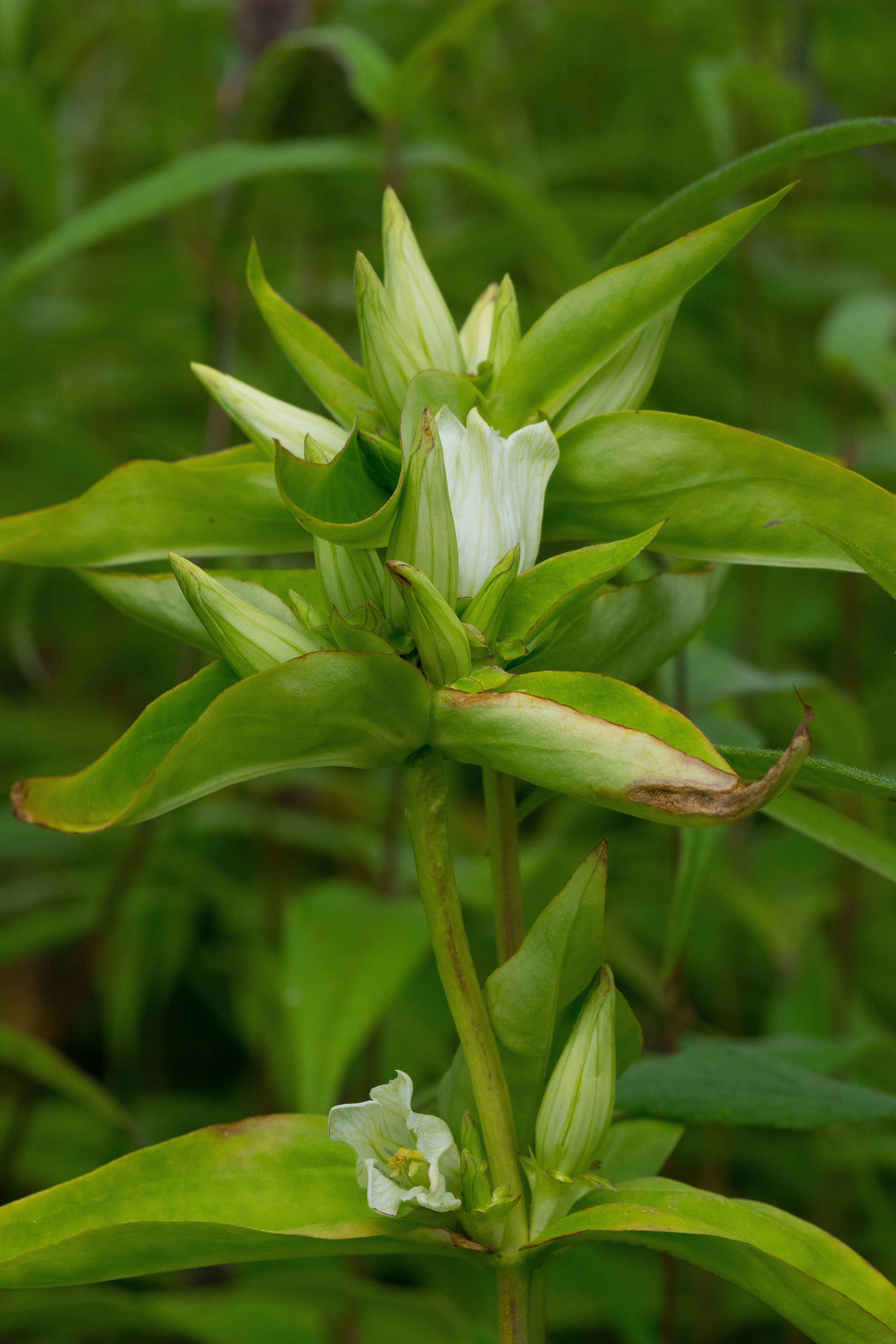 Cream gentian, Gentiana alba